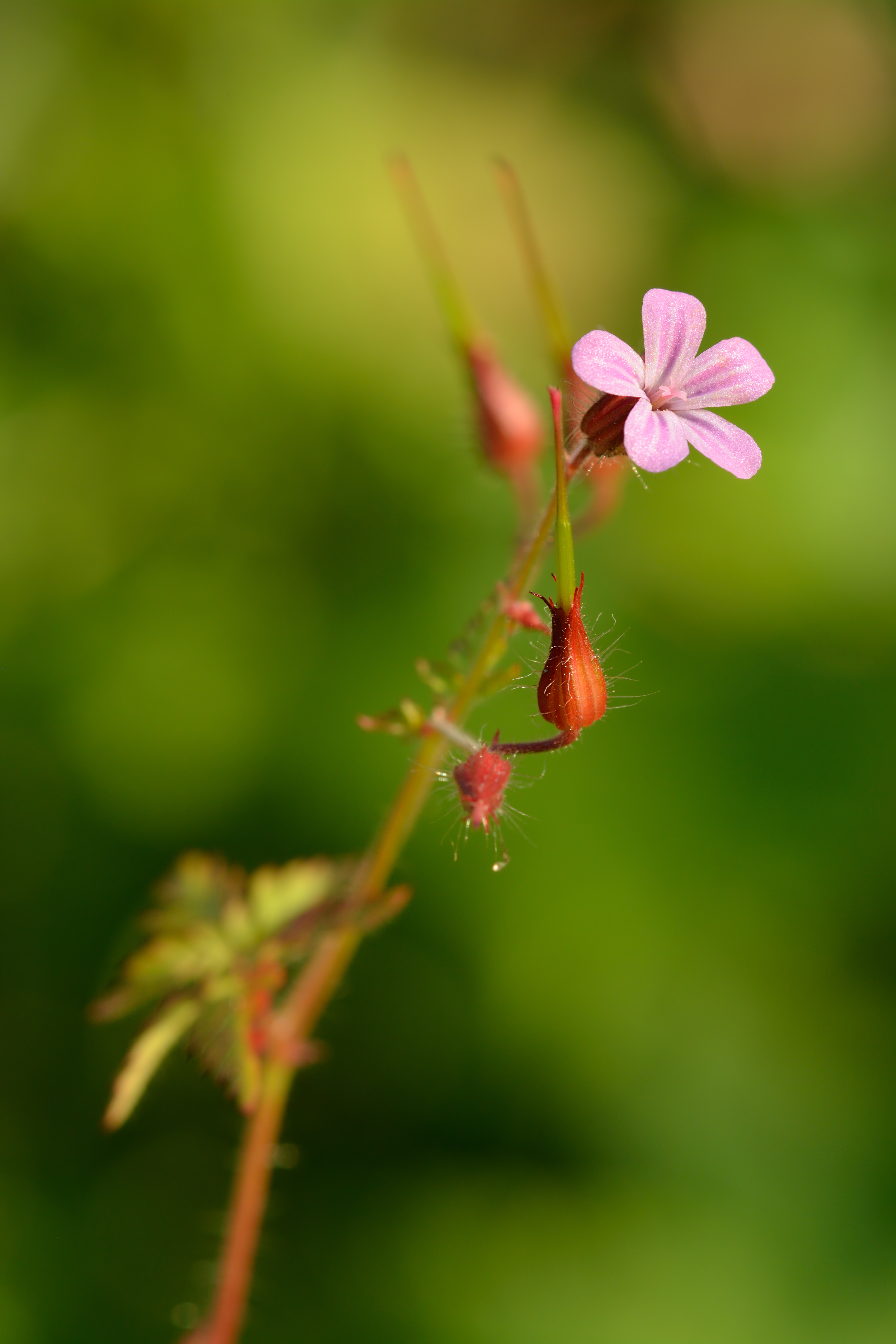 Herb Robert (Geranium robertianum), Pakri peninsula.